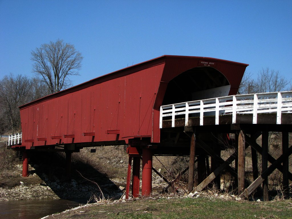 The Roseman Bridge in Madison County, Iowa. Location where some of the scenes of The Bridges Of Madison County were shot. This is one of the six remaining covered bridges in Madison County. It was built in 1883 by Benton Jones.